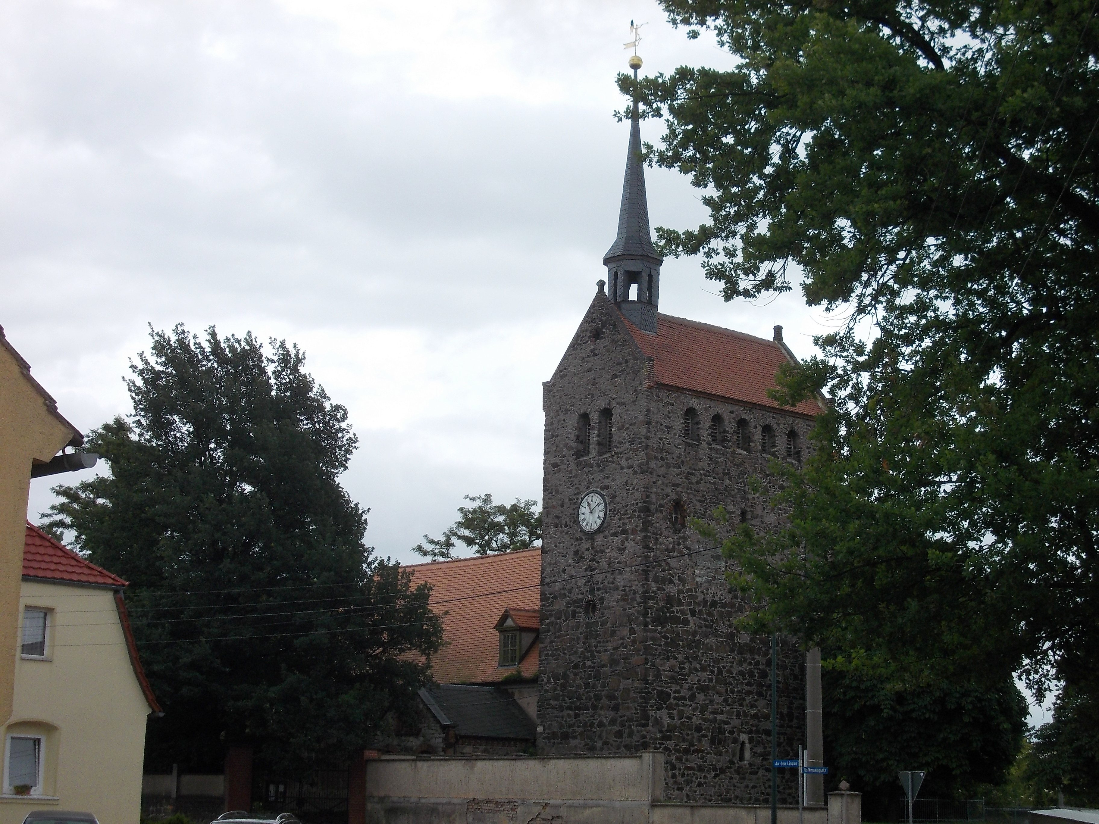 St. Mary's Church in Schwerz (Landsberg, district: Saalekreis, Saxony-Anhalt)